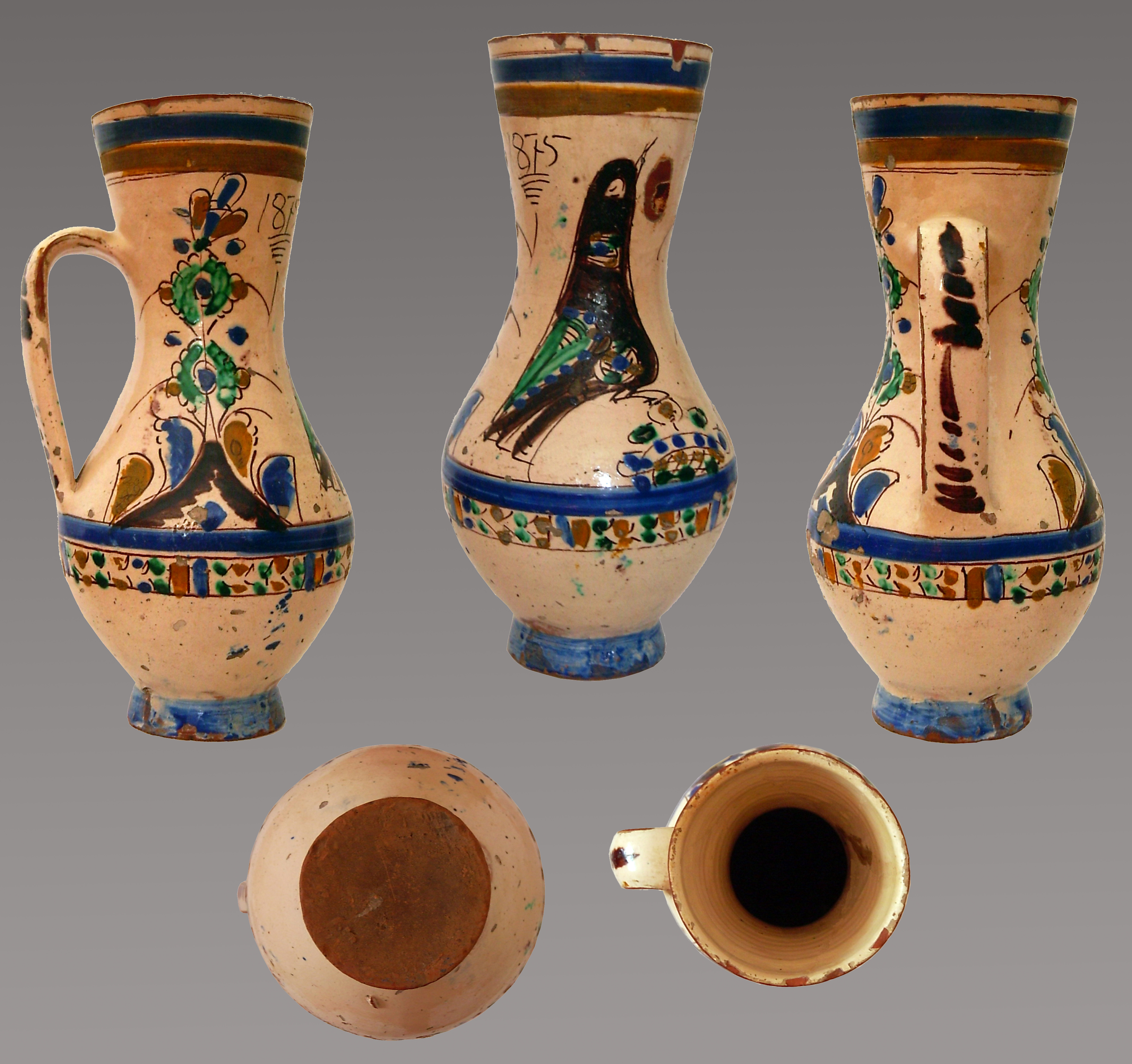 Hungarian jug from Transylvania 1875.